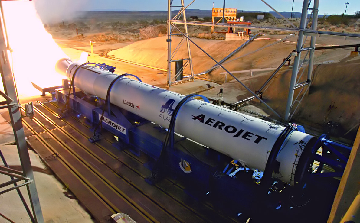 The Air Force Research Laboratory's Edwards Research Site helped static-fire the third Aerojet Block B Solid Rocket Booster for the Atlas V system.